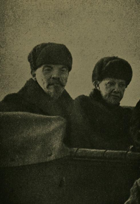 V.I. Lenin, N.K. Krupskaya in a car after the finish of a Red Army parade at Khodyn Field in Moscow.